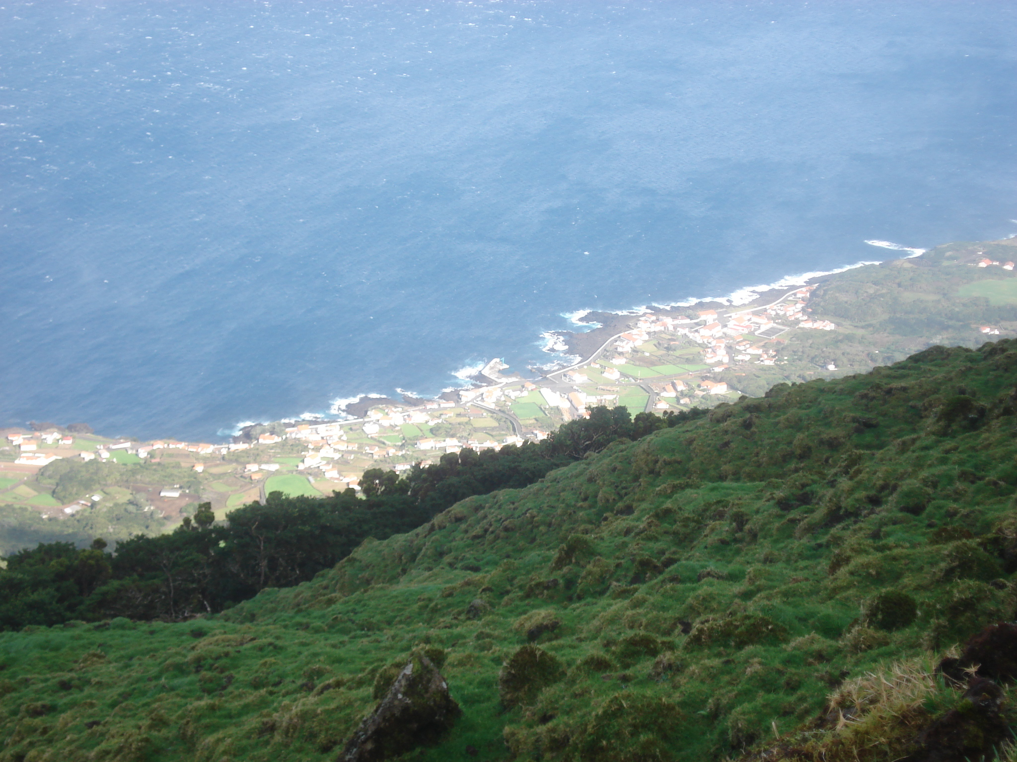 Santo Amaro, as seen from atop the slopes of Calhesta de Nesquim, on the Achada Plain, Pico Island, Pico